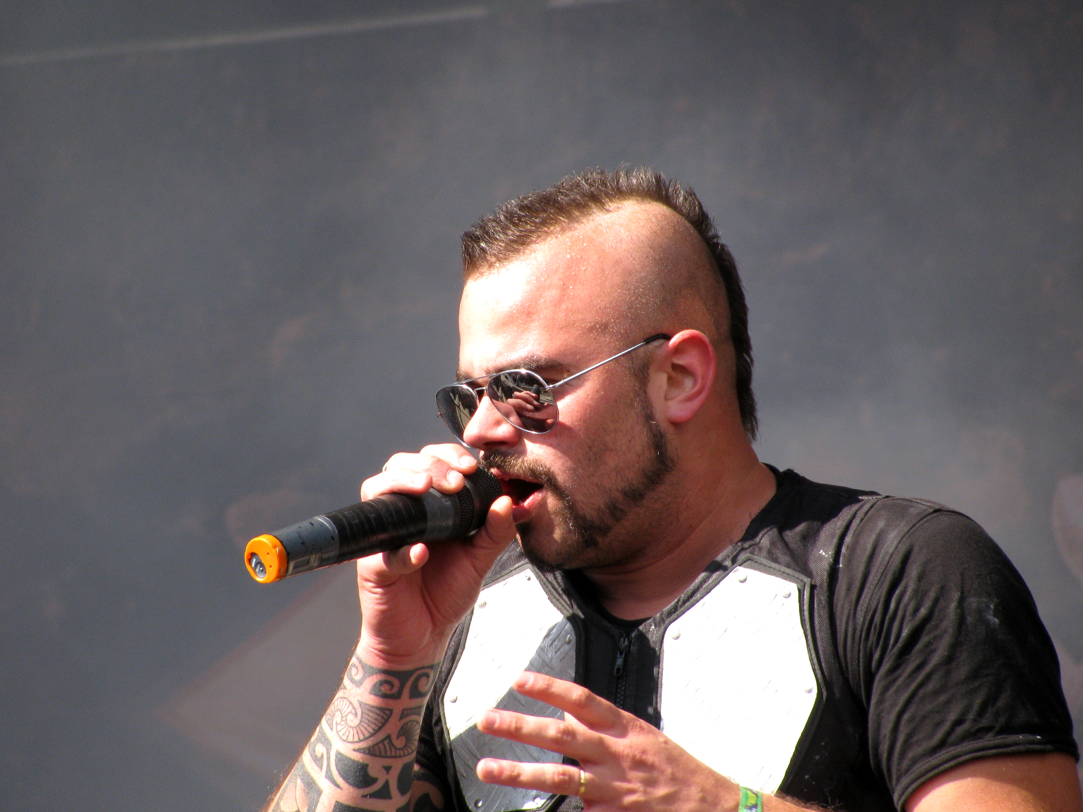 Sabaton playing at Global East Rock Festival 2010